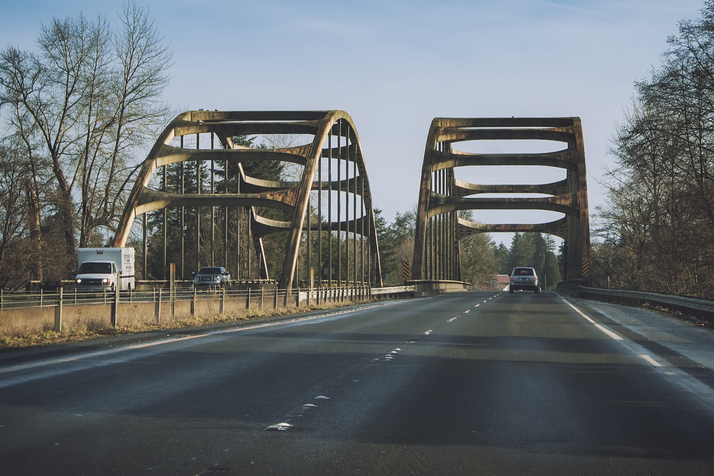 Satsop River Bridges, looking east, U.S. Route 12.